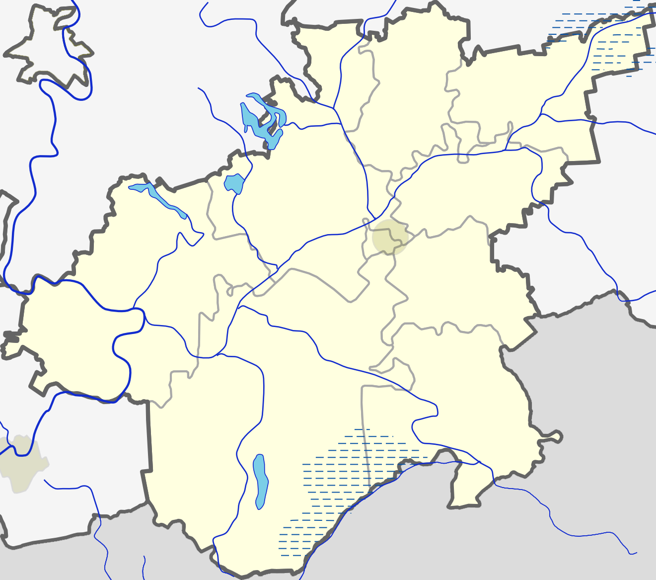 Location map of Varėna district municipality in Lithuania.